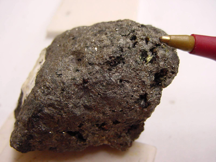 Glaucodot. Pen for scale. Mineral collection of Bringham Young University Department of Geology, Provo, Utah. Photograph by Andrew Silver. BYU index 2-7028, (CoFe)AsS.